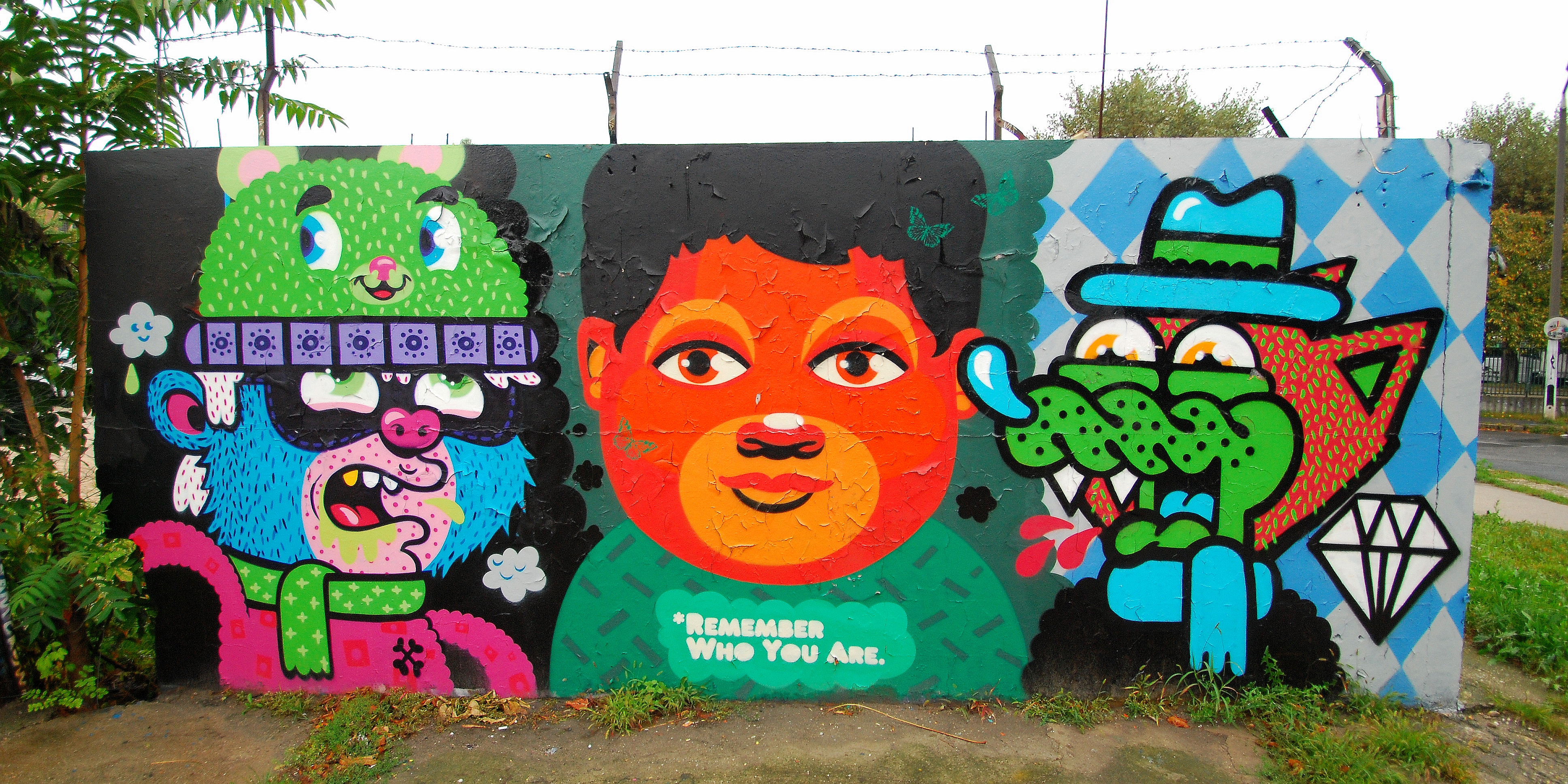 Graffiti in Budapest.